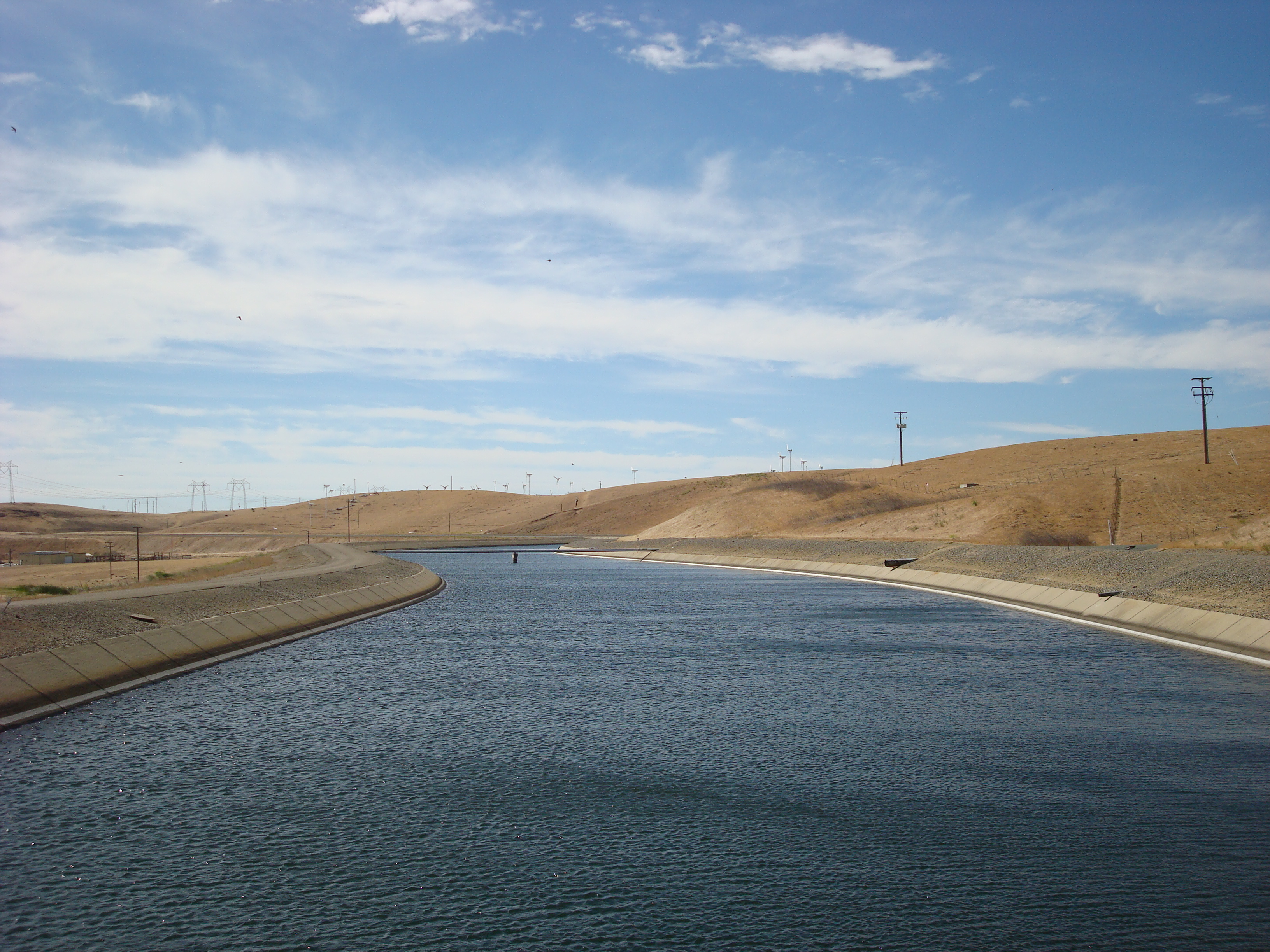 The California Aqueduct as it emerges Bethany Reservoir in eastern Alameda County, California. A part of the California State Water Project system infrastructure.